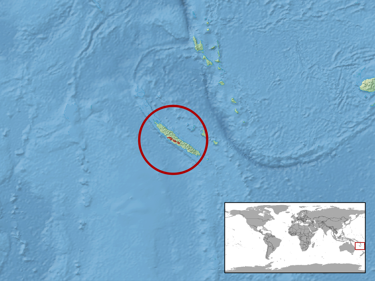 geographic distribution of Lioscincus maruia